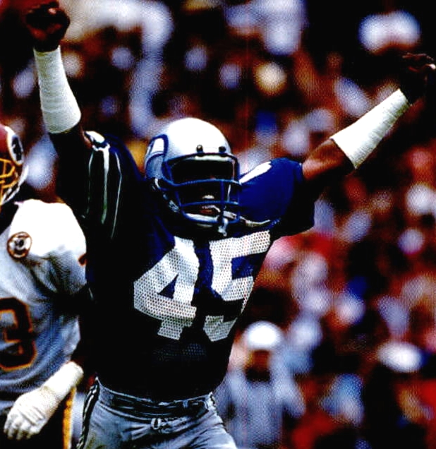 Seattle Seahawks strong safety Kenny Easley celebrating a defensive play against the Washington Redskins during a September 28, 1986 away game at RFK Stadium.